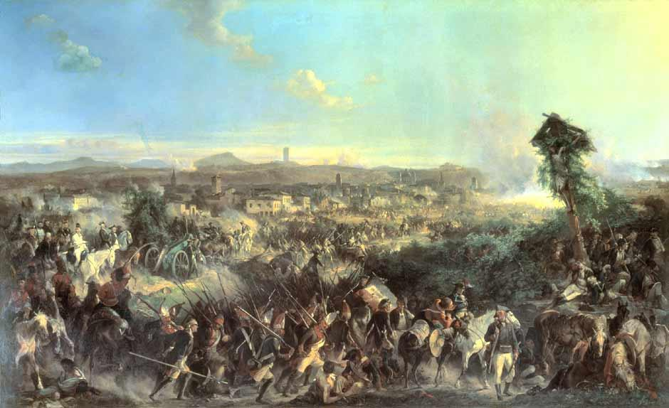 Suvorov`s battle by Novi (4 august 1799)